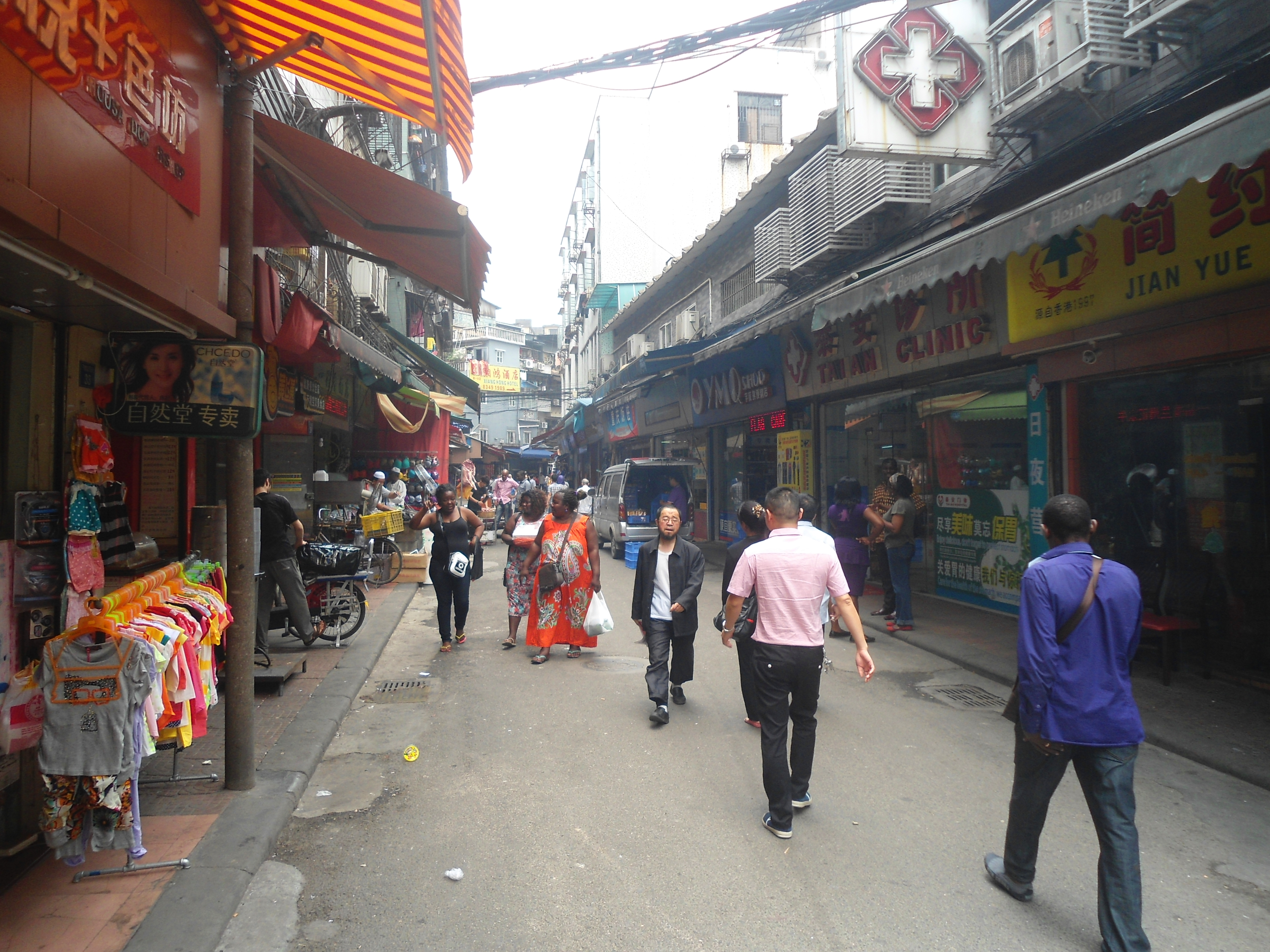 Baohan Straight Street (facing north), the heart of the African area, Dengfeng Subdistrict, Yuexiu District, Guangzhou, Guangdong, China